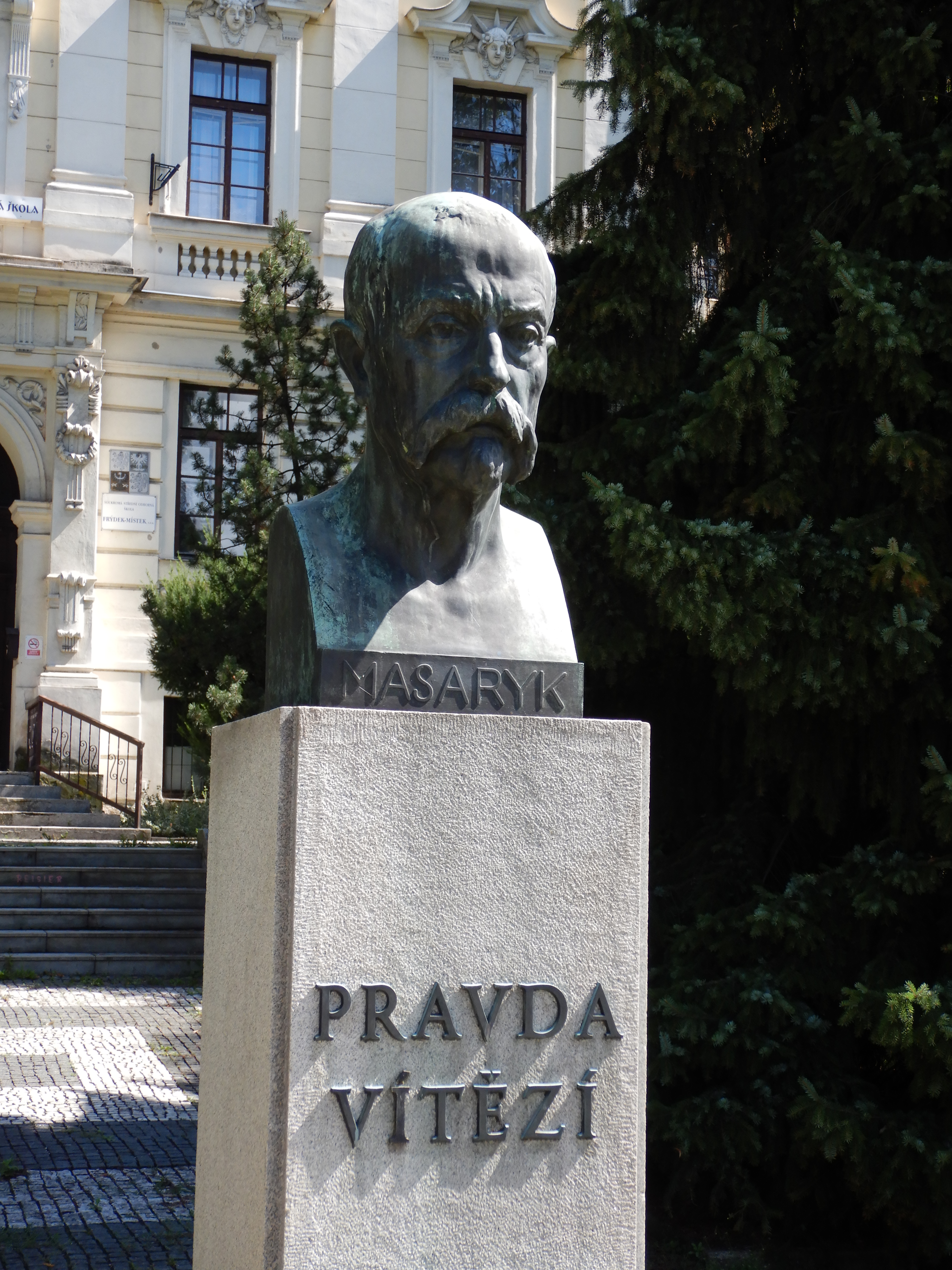 Bust of TGM at T. G. Masaryk street in Frýdek. The bust was made by Josef Mařatka in 1921-1926.